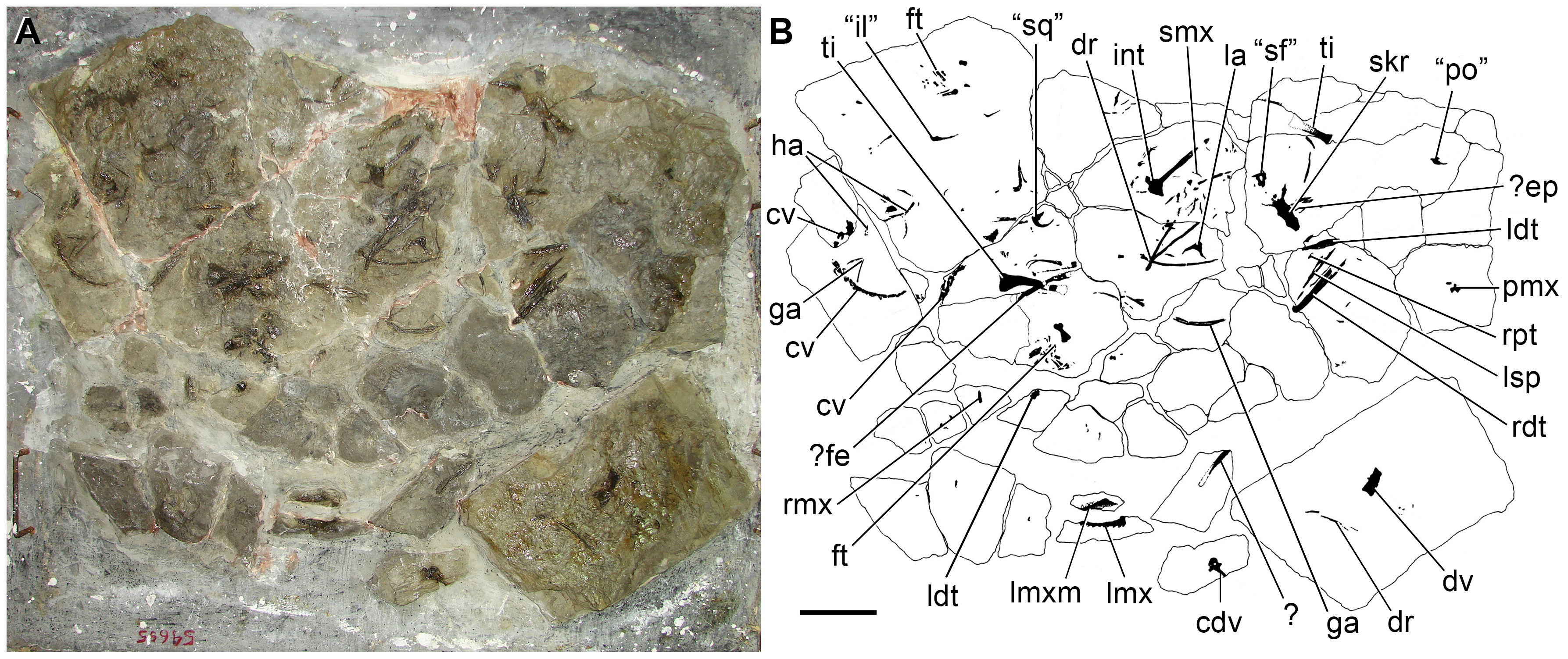 Slab including the artificially assembled blocks that compose the type specimen (UTGD 54655) of Tasmaniosaurus triassicus. A, photograph; B, line drawing. Abbreviations: “il”, ilium of Camp & Banks; “po”, postorbital of Camp & Banks; “sf”, supratemporal fenestra of Thulborn; “sq”, squamosal of Camp & Banks; ?, indeterminate bone; ?ep, epipterygoid; ?fe, probable femur; cdv, cervico-dorsal vertebra; cv, caudal vertebrae; dr, dorsal rib; dv, dorsal vertebra; int, interclavicle; ft, foot; ga, gastralia; ha, haemal arch; la, right lacrimal; ldt, left dentary; lmx, probable left maxilla; lmxm, probable left maxilla natural mould; lsp, left splenial; pmx, right premaxilla; rdt, right dentary; rmx, probable right maxilla; rpt, right pterygoid; ti, tibia; skr, skull roof; smx, small ?archosauriform maxilla. Scale bar equals 10 cm. Drawing of Fig. 2B modified from [19].